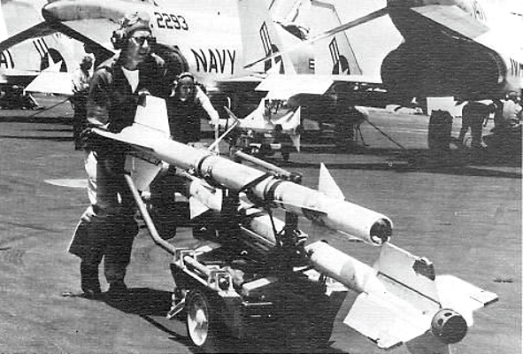 A U.S. Navy ordnanceman transports AIM-9B Sidewinder missiles for McDonnell F-4B Phantom II fighters aboard the aircraft carrier USS America (CVA-66) on 8 June 1967 in response to the attack on the SIGINT ship USS Liberty (AGTR-5). Note the AIM-7 Sparrow missiles in the background. America, with assigned Attack Carrier Air Wing 6 (CVW-6), was deployed to the Mediterranean Sea from 10 January to 20 December 1967.